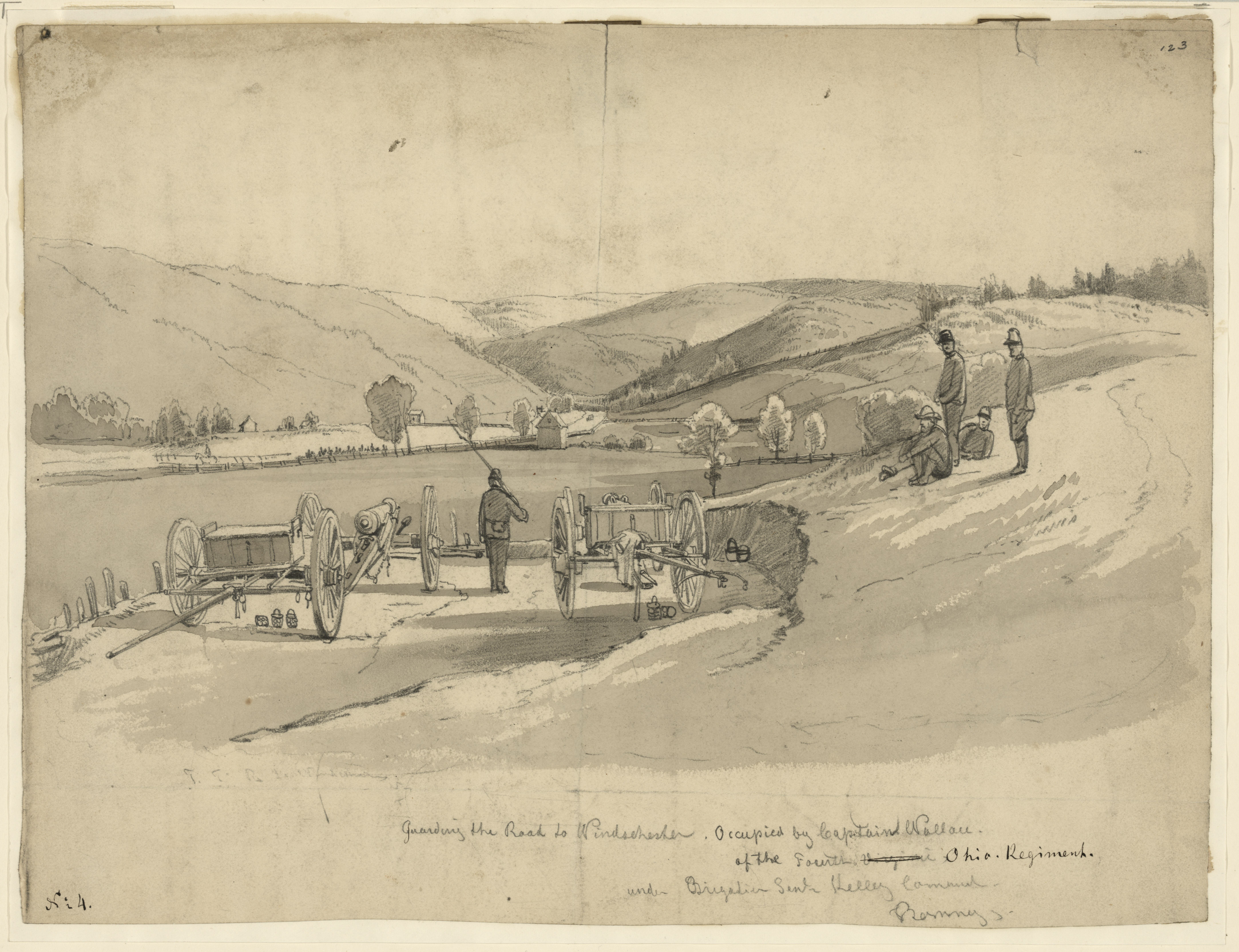 Title: Guarding the Road to Windschester [sic] Abstract/medium: 1 drawing on cream paper : pencil and black ink wash ; 27.0 x 35.5 cm. (sheet).